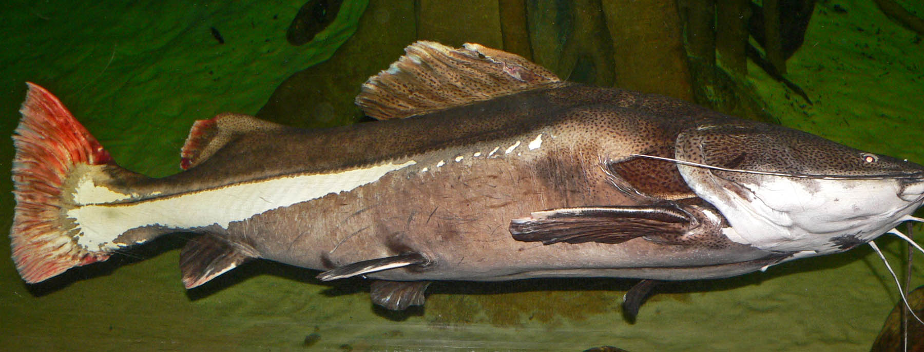 Photo of ' (redtail catfish) at the Vancouver Aquarium